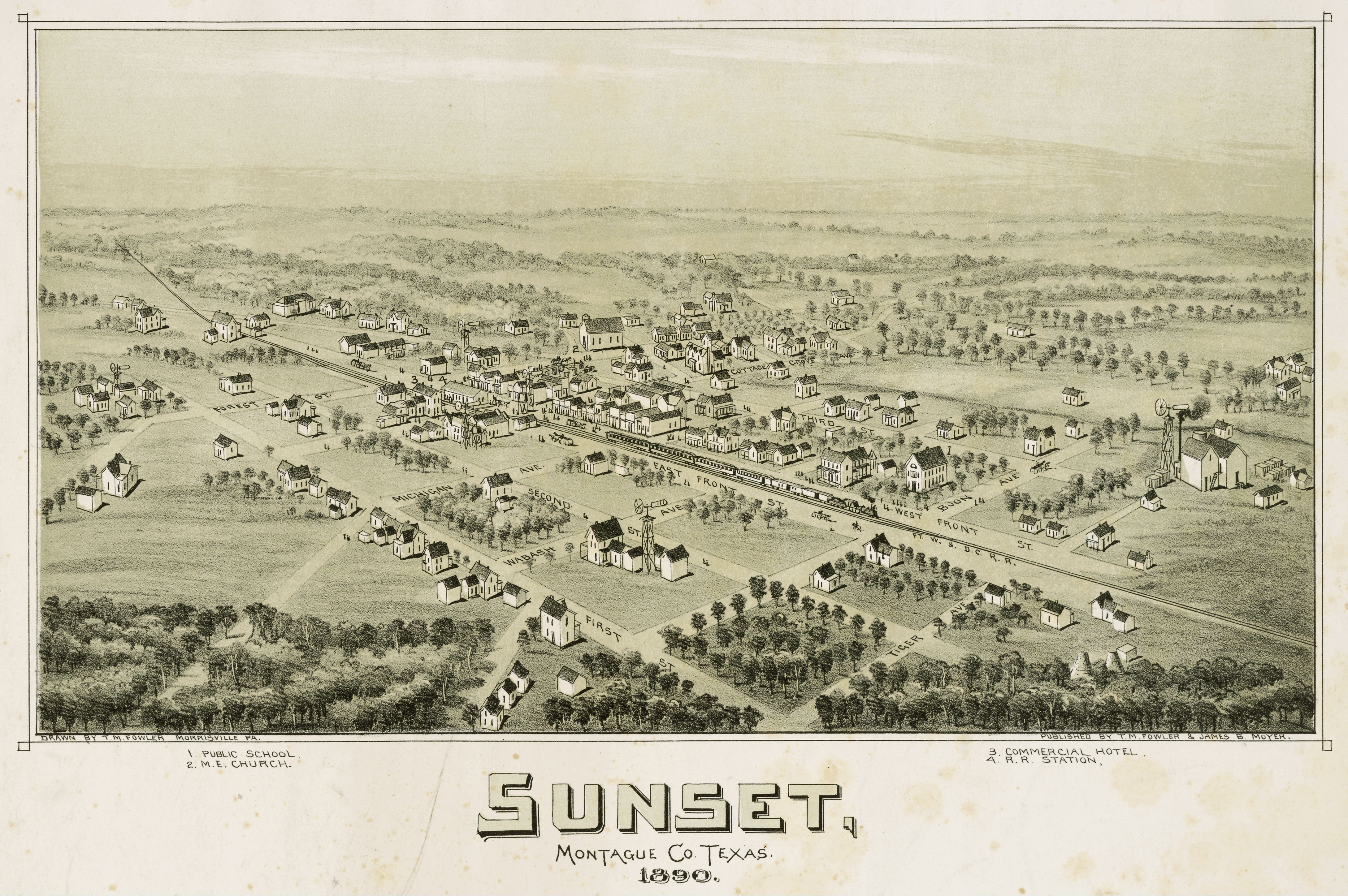 Sunset, Texas in 1890. Sunset, Montague Co. Texas. 1890, 1890. Toned lithograph, 8 x 14.4 in. Published by T. M. Fowler & James B. Moyer. Amon Carter Museum, Fort Worth.